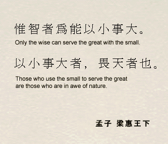 The part of "Serve the Great" 以小事大 Mencius 梁惠王下